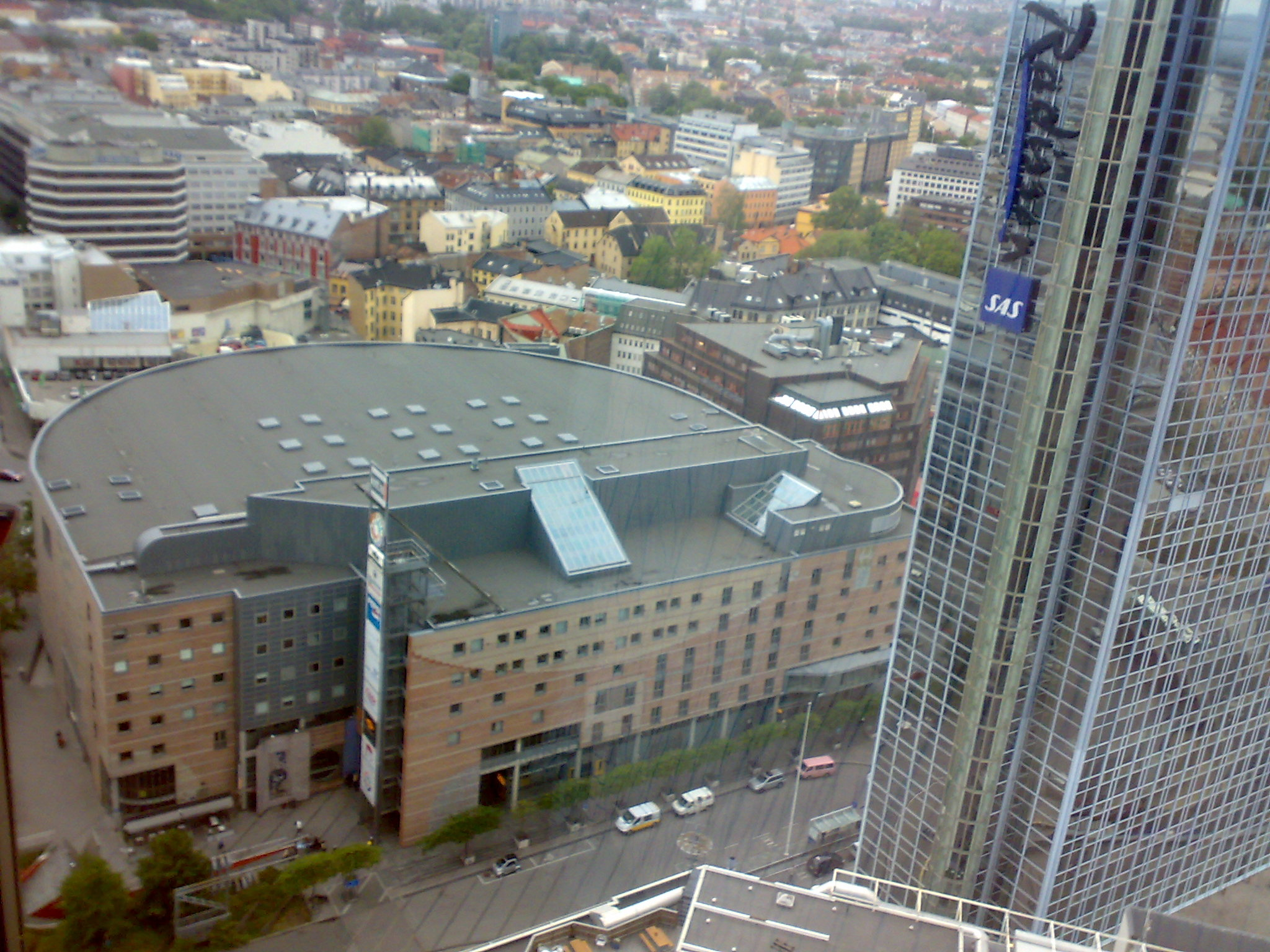 oslo Plaza